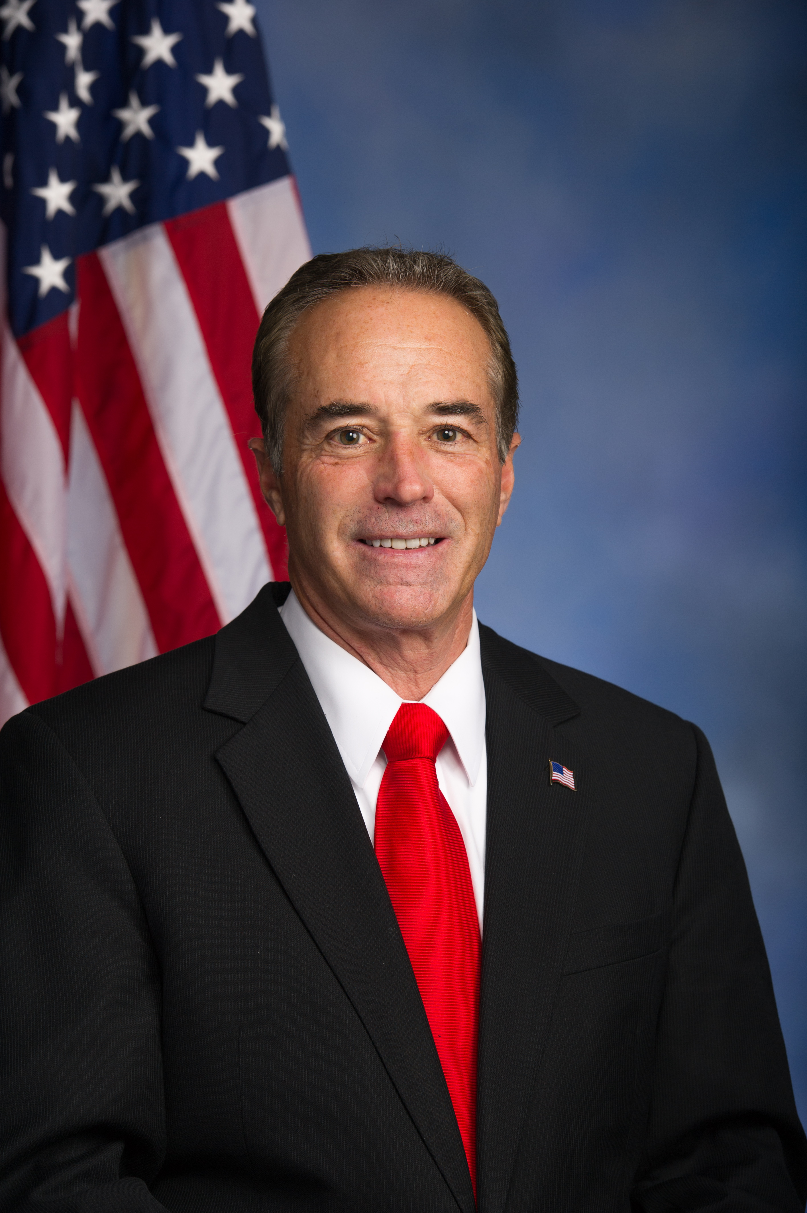 Official Portrait of US Rep Chris Collins